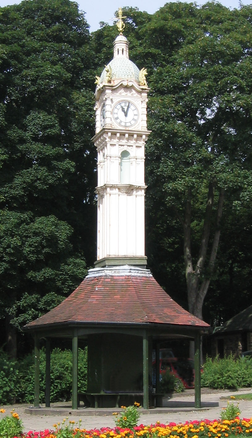 1904 Street Clock, Roundhay Road, Oakwood Leeds